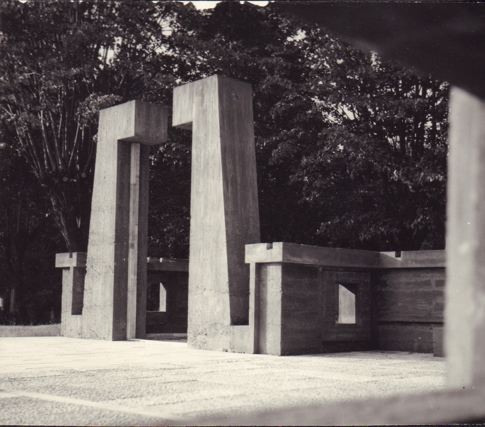 Entrance in Novo groblje Belgrade designed by Bogdan Bogdanović